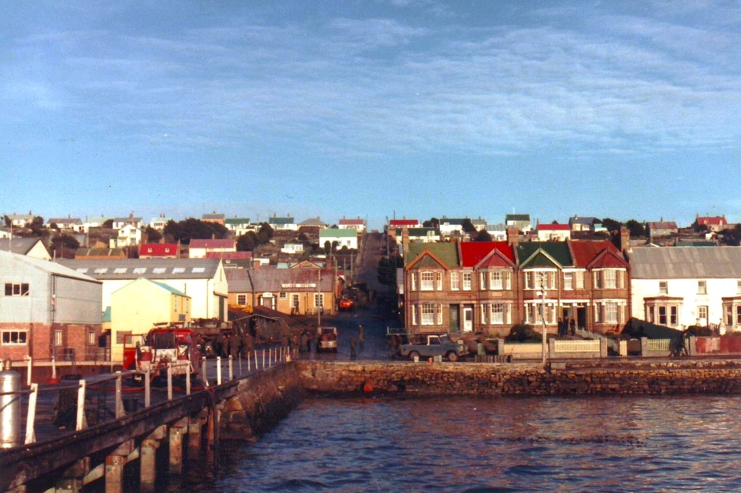 Port Stanley 1982